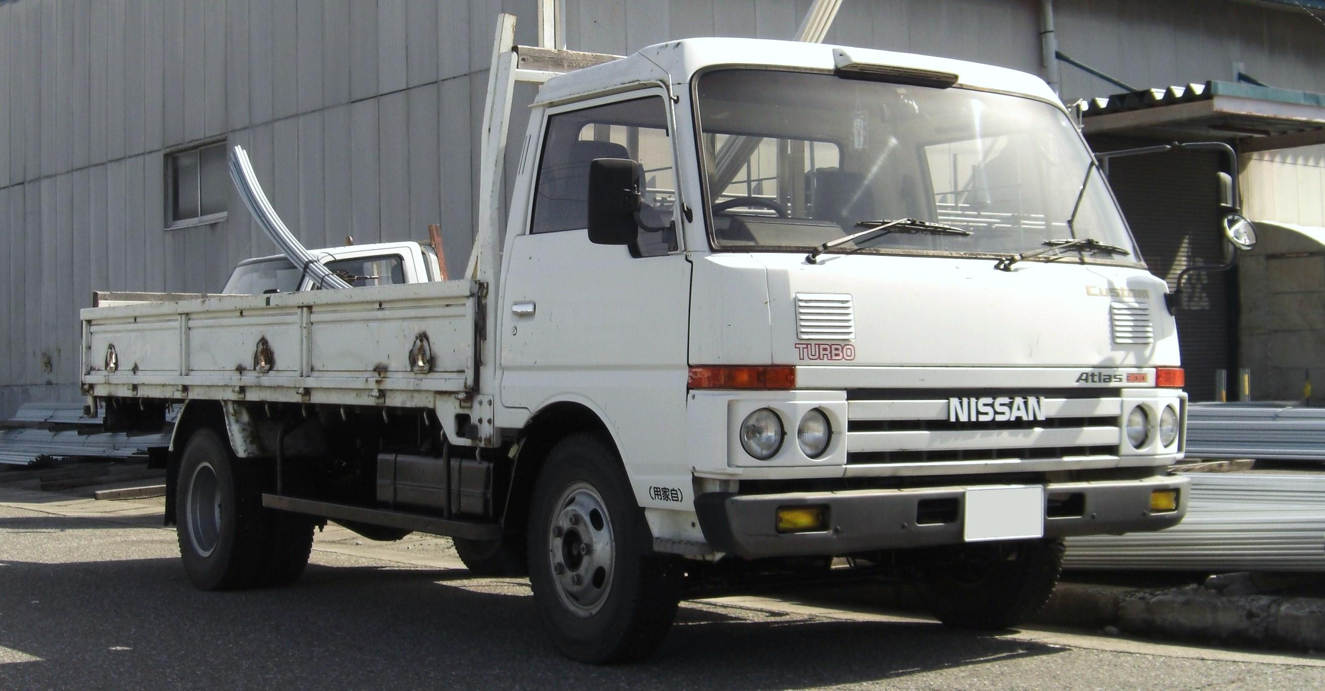 NISSAN Atlas